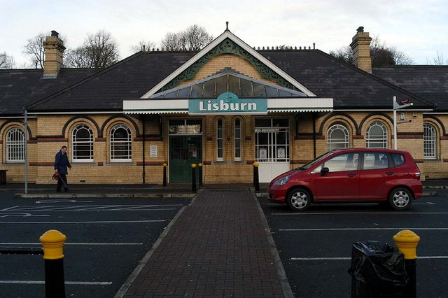 Lisburn Station Designed by William Henry Mills, built in 1878 for the then newly formed Great Northern Railway of Ireland (GNRI).